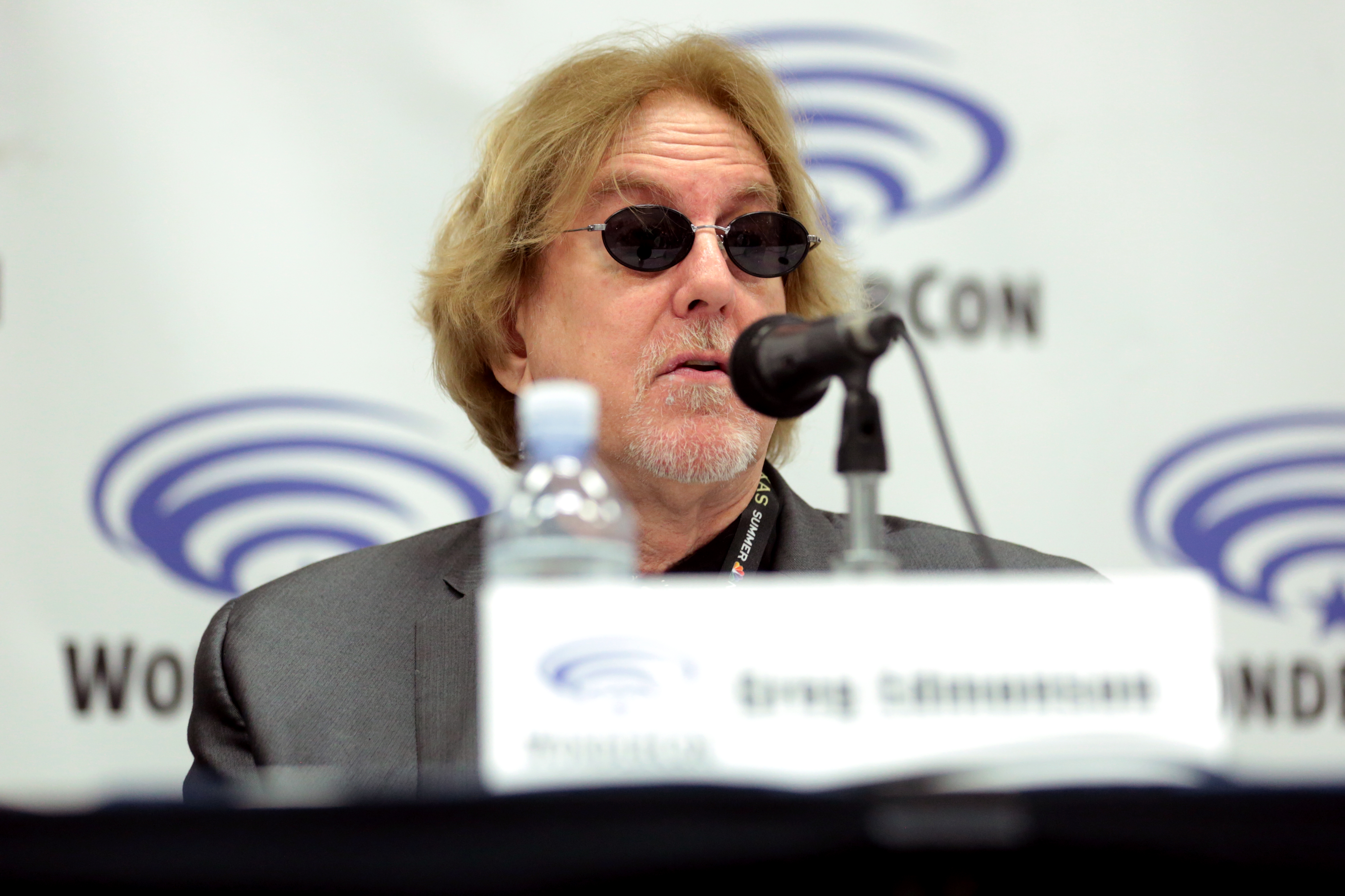 Greg Edmonson speaking at the 2017 WonderCon in Anaheim, California.